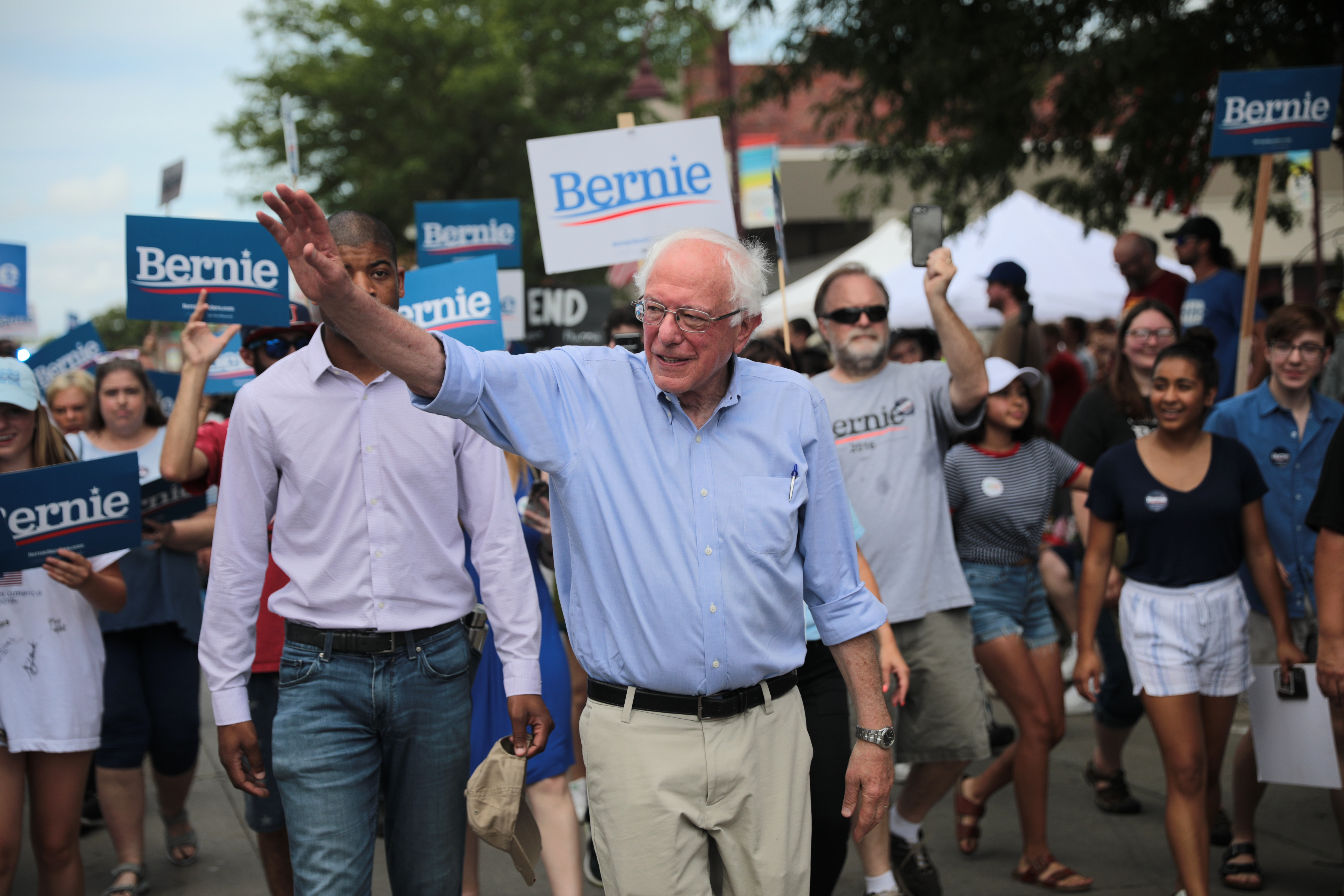 U.S. Senator Bernie Sanders walking in the Independence Day parade with supporters in Ames, Iowa.